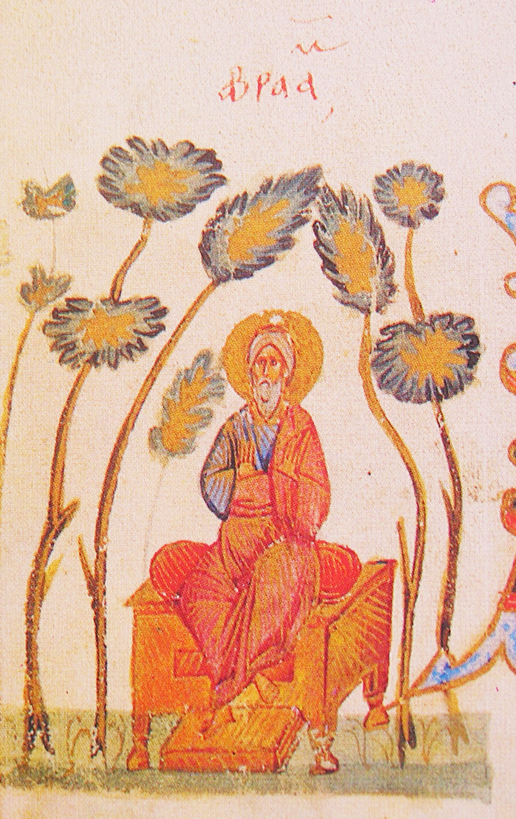 Kievan Psalter